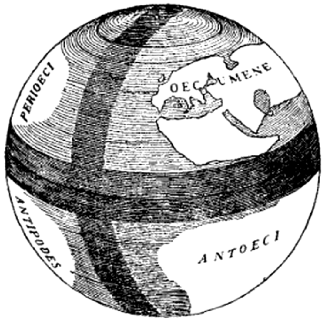 Caption: "Fig. 2.—The Globe of Crates of Mallus."An illustration of the globe demonstrated by Crates in Rome, displaying the oecumene (the known world of Europe, Asia, and Cissaharan Africa), perioeci (the unknown land hypothesized to lie on the other side of the Northern Hemisphere), antoeci (the unknown land hypothesized to lie on the other side of the equator, inaccessible owing to the presumed impossible heat), and antipodes (the unknown land hypothesized to lie on the opposite side of the world, likewise inaccessible).The caption describes it as "Fig. 2", but it is actually the third figure in the article.